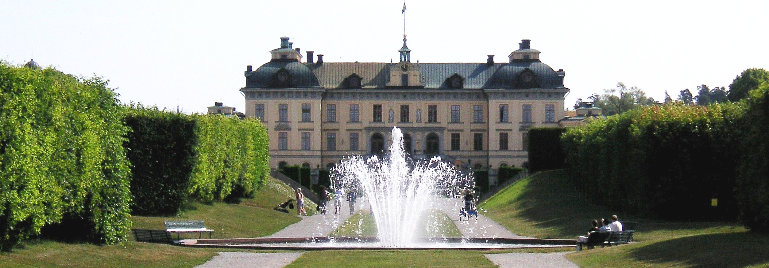 Royal Domain of Drottningholm